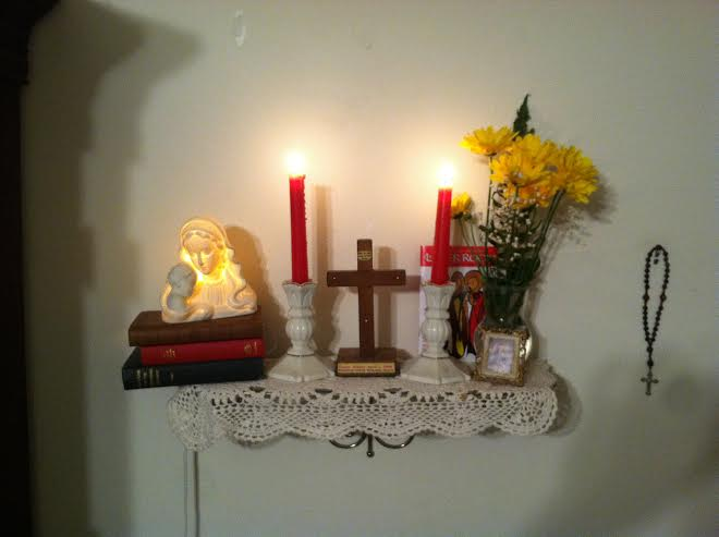 The image is of a home altar, also known as a family altar, in a Methodist Christian household. It has an altar cross, two altar candles, as well as The Head of Christ painting and an Anglican Rosary. The books sitting under the Madonna and Child lamp are the Holy Bible, Book of Common Prayer, and Book of Discipline of the Methodist Church. Behind the vase of flowers is a copy of The Upper Room Methodist daily devotional. I clicked this picture on April, 5, 2014.